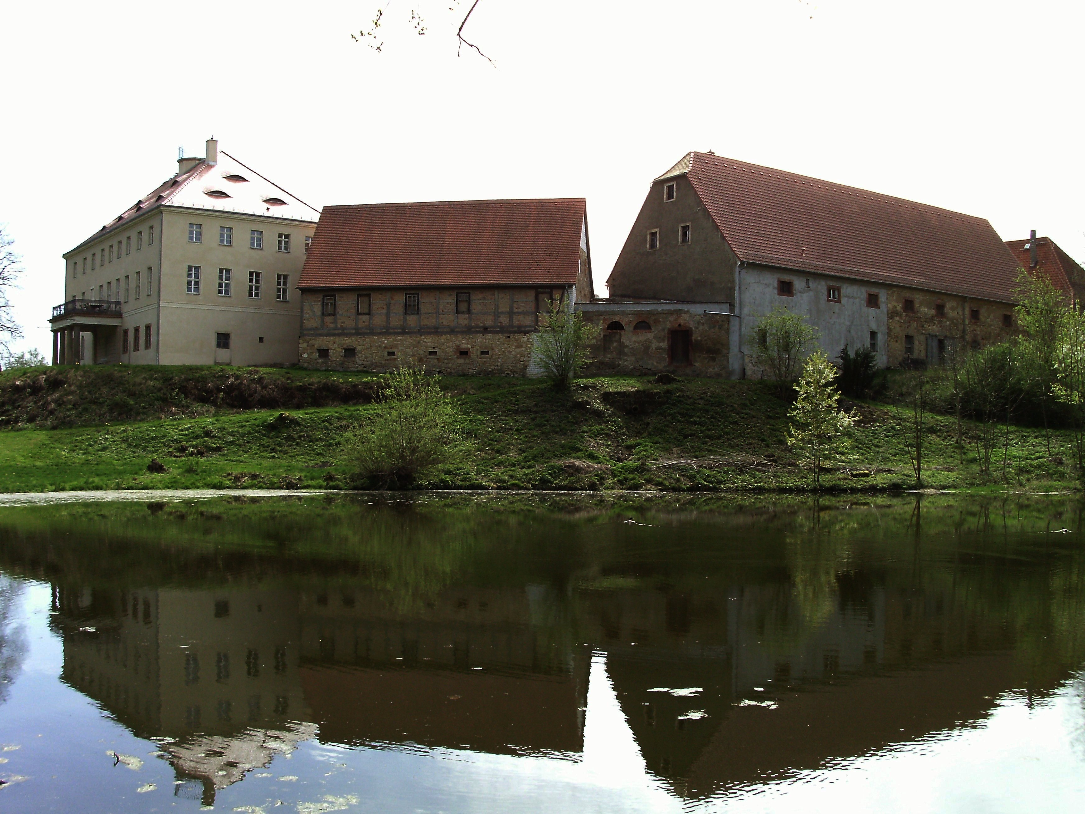 Rüdigsdorf estate (Kohren-Sahlis, Leipzig district, Saxony)